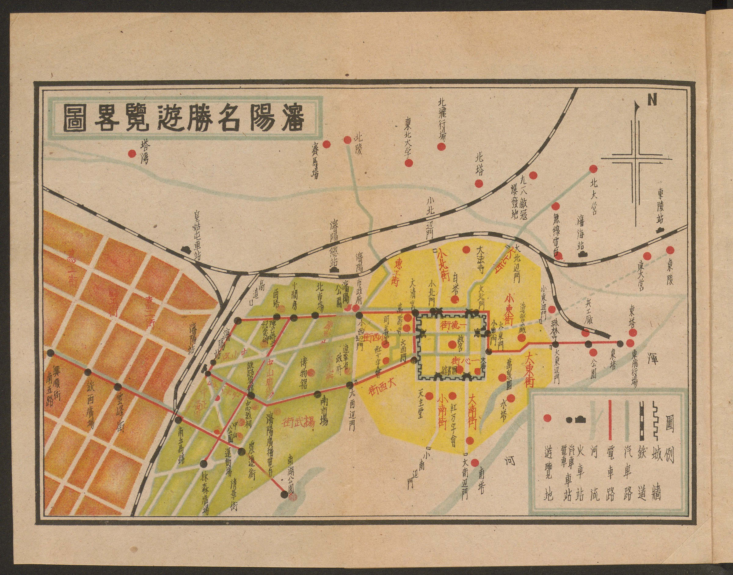 3 Main Areas of Shenyang 1947